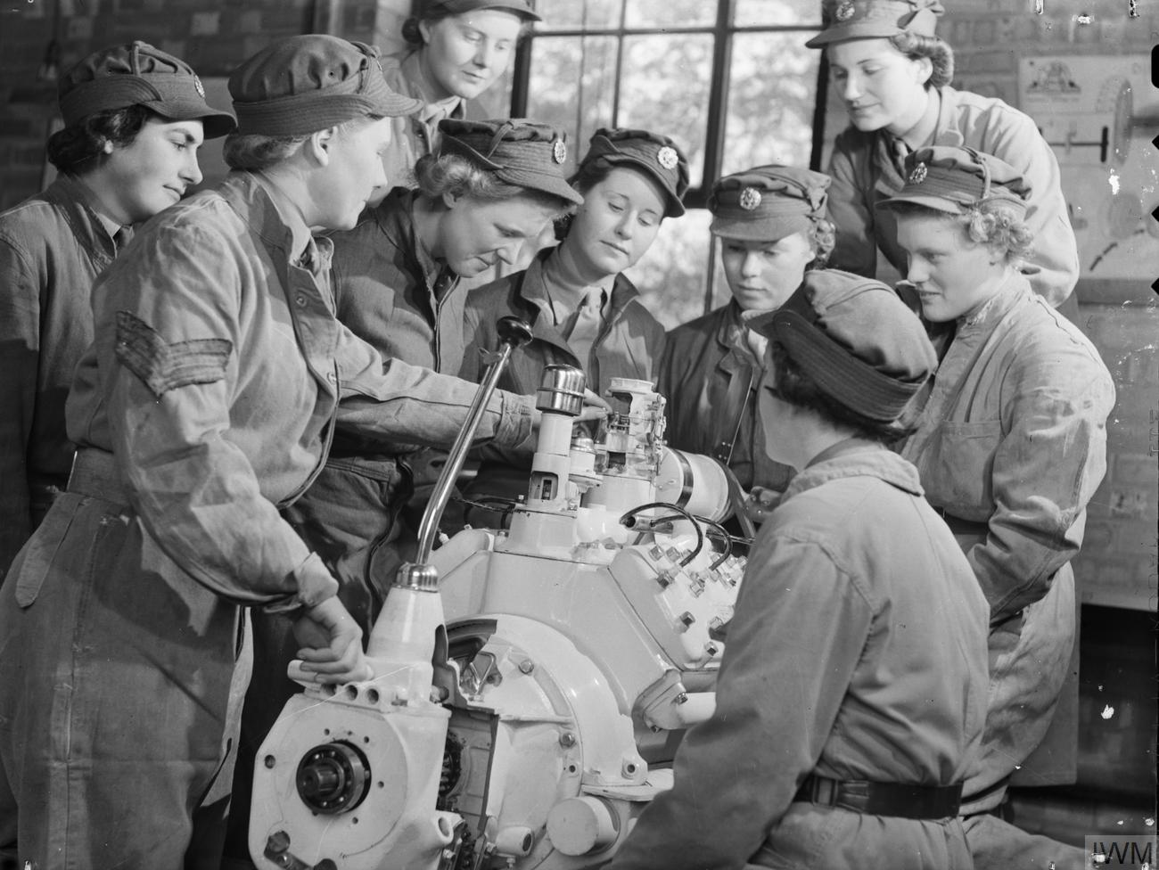 At An Ats Motor Transport Company Training Centre, Camberley, Surrey, 1941 Trainees have various parts of an engine explained to them by their female instructor in a workshop at the Motor Transport Company Training Centre, probably at Camberley, Surrey.